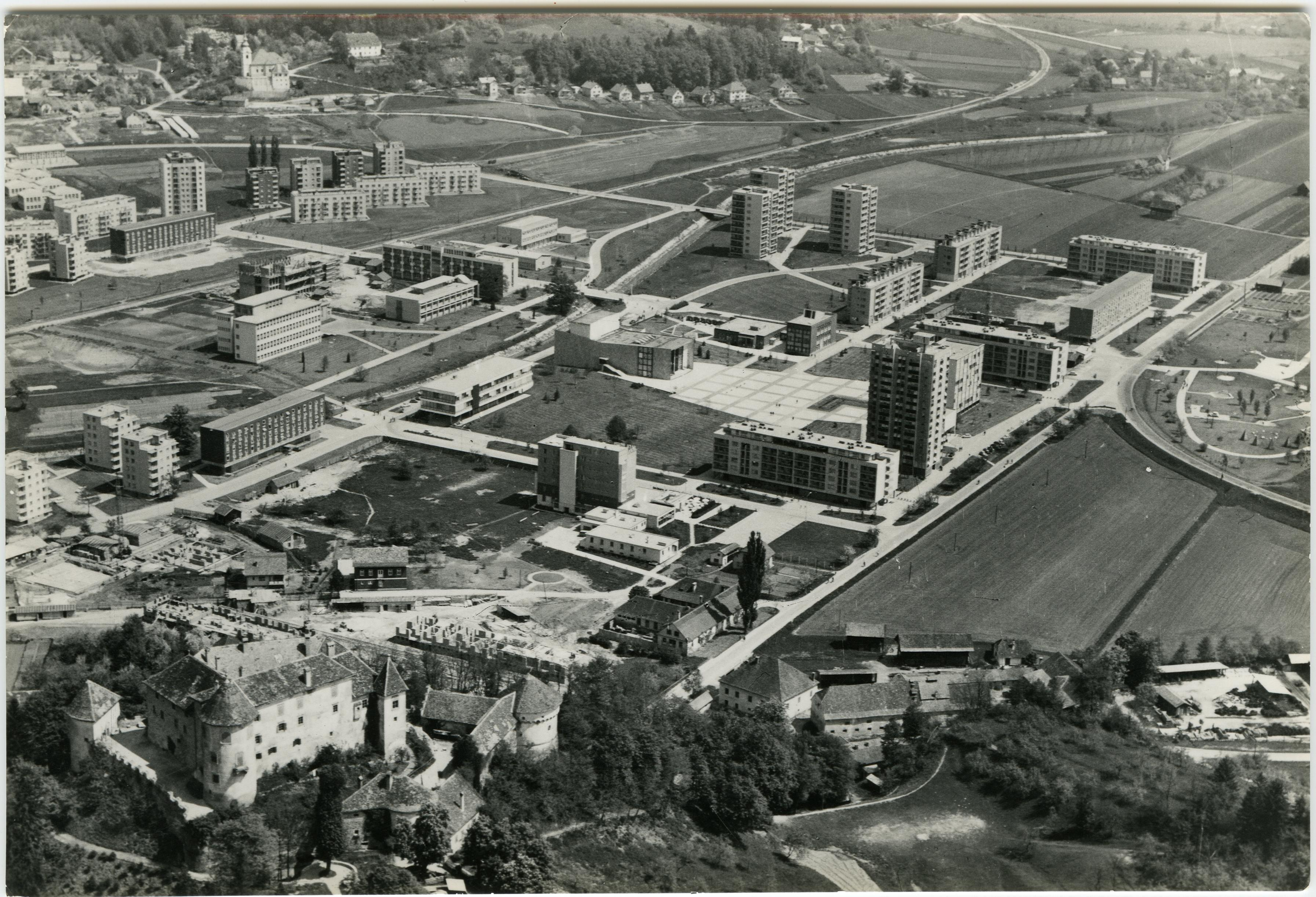 Postcard of Velenje.